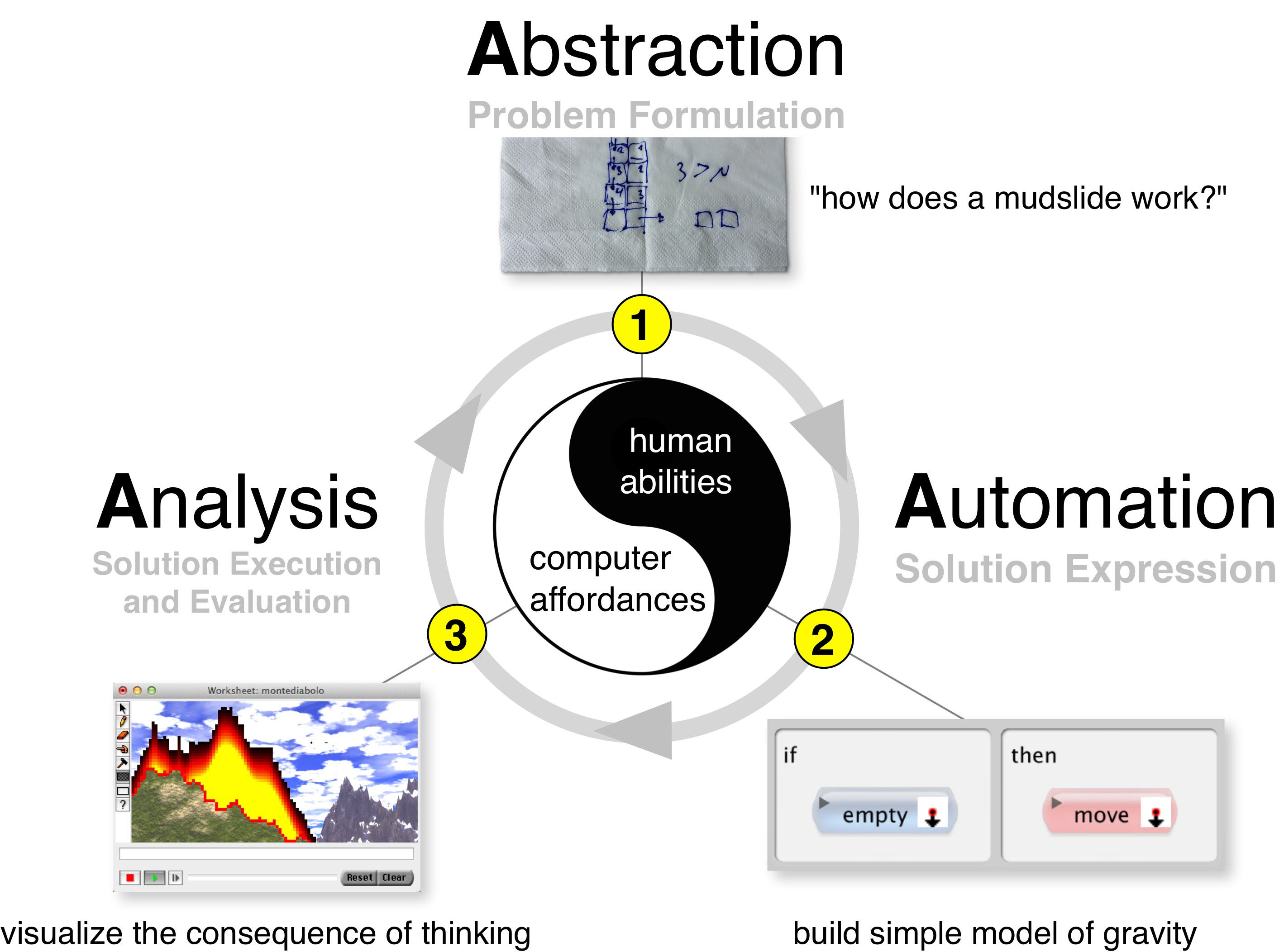 Three stage process describing Computational Thinking